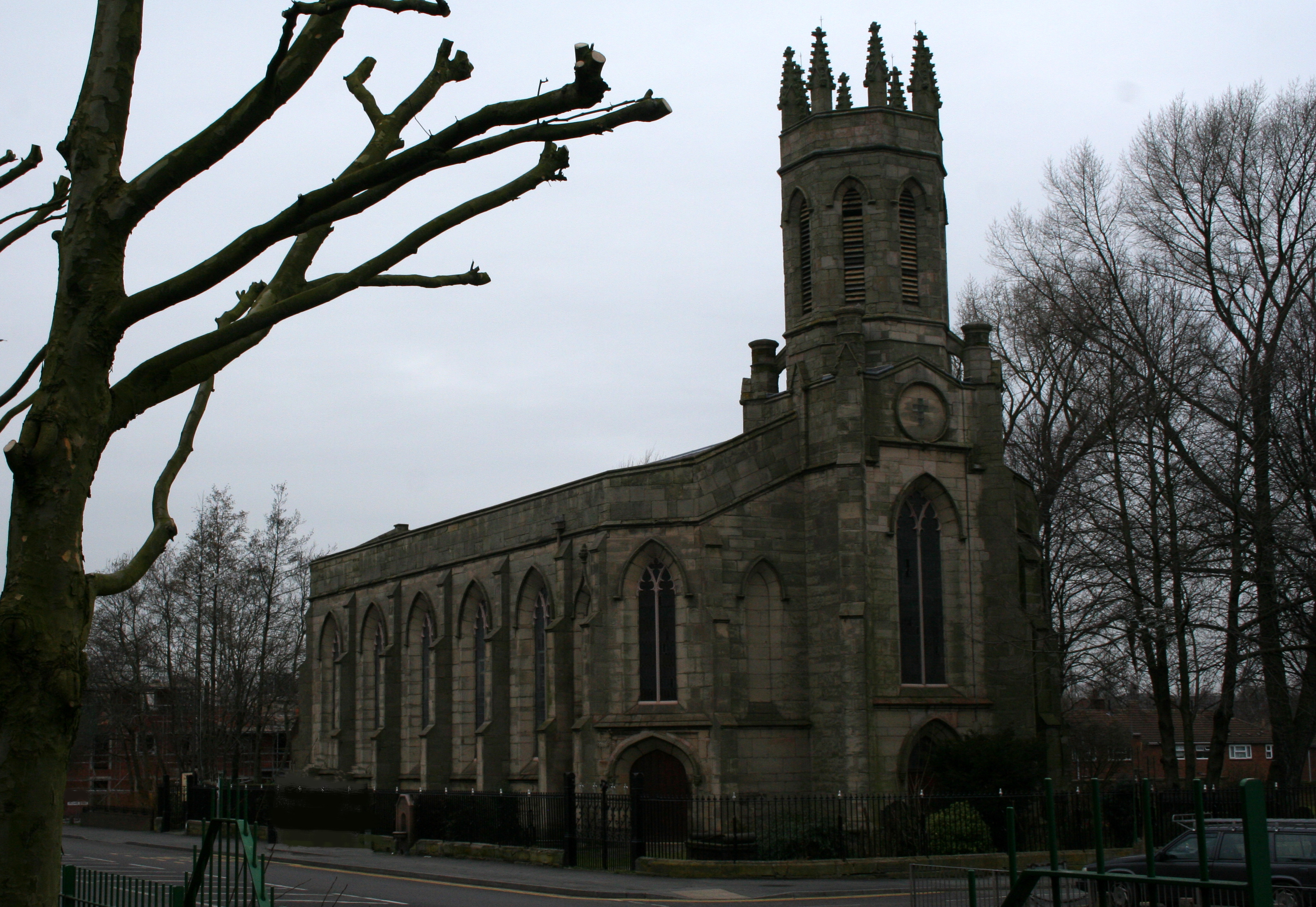 St Mary's parish church, Oxford Street, Bilston, West Midlands, seen from the southeast